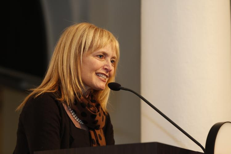 USCIRF Chair Dr. Katrina Lantos Swett speaking at the International Parliamentary Coalition in Oslo.